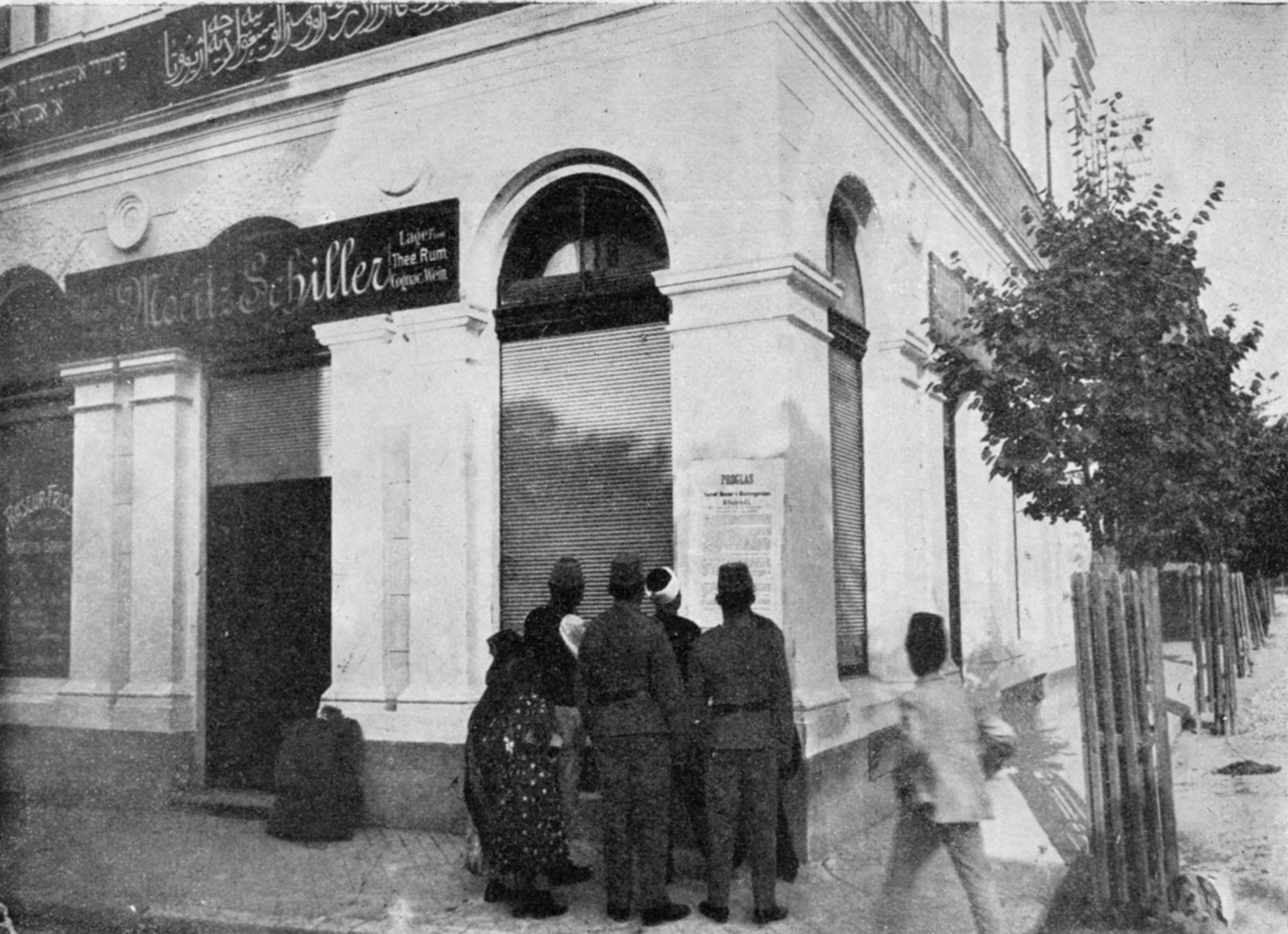 Translated caption from the book: At the same place as Princip in 1914 carried out his assassination, posters with the proclamation of the annexation were put up October 7, 1908. The depicted poster most likely bears the following text: Proglas na Narod Bosne i Hercegovine. Today, the building hosts the Museum of Sarajevo 1878-1918.